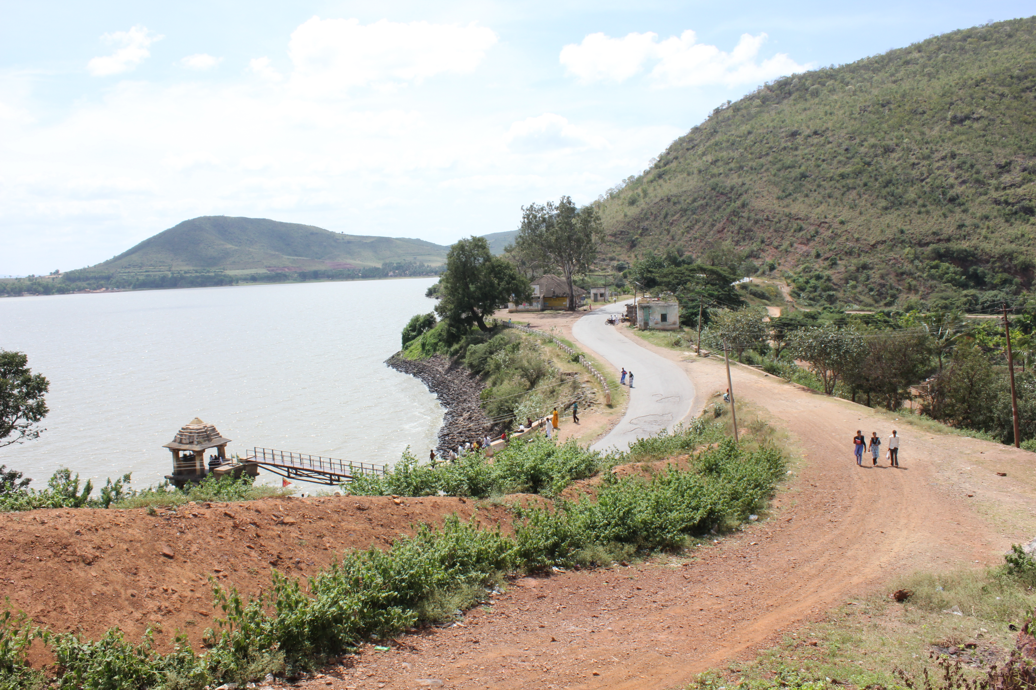 View of Shanthi Sagar (Soole Kere) ಸೂಳೆ ಕೆರೆ near channagiri,davengere karnataka